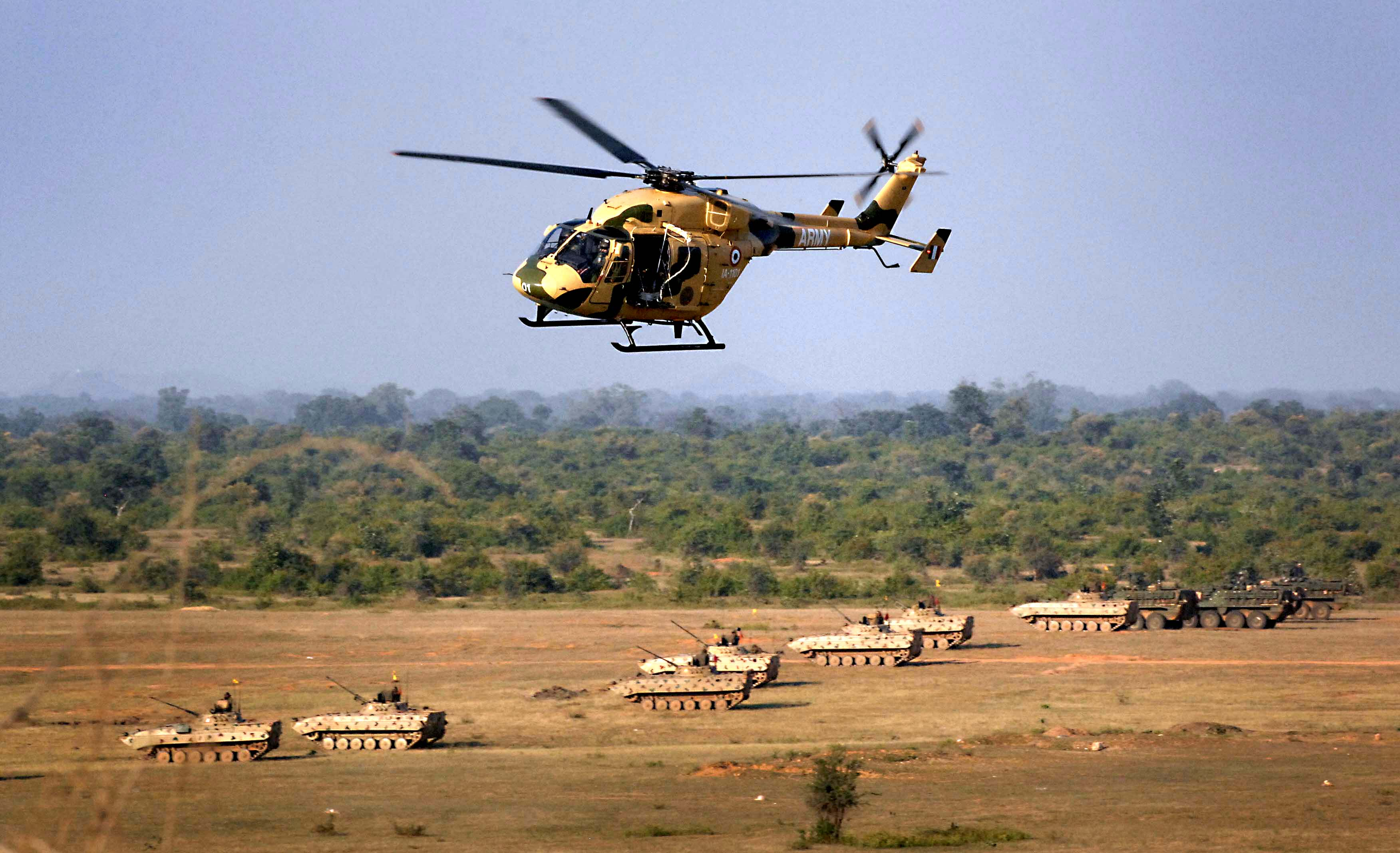 An Indian army helicopter flies over a field with both Soviet and U.S. military combat vehicles on a firing line. during a joint exercise with soldiers from the 2nd Squadron, 14th Cavalry Regiment, based out of Hawaii. The exercise was a culmination of two weeks of joint training at Camp Bundela, India.